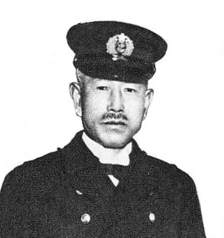 Nobumasa Suetsugu Close-up